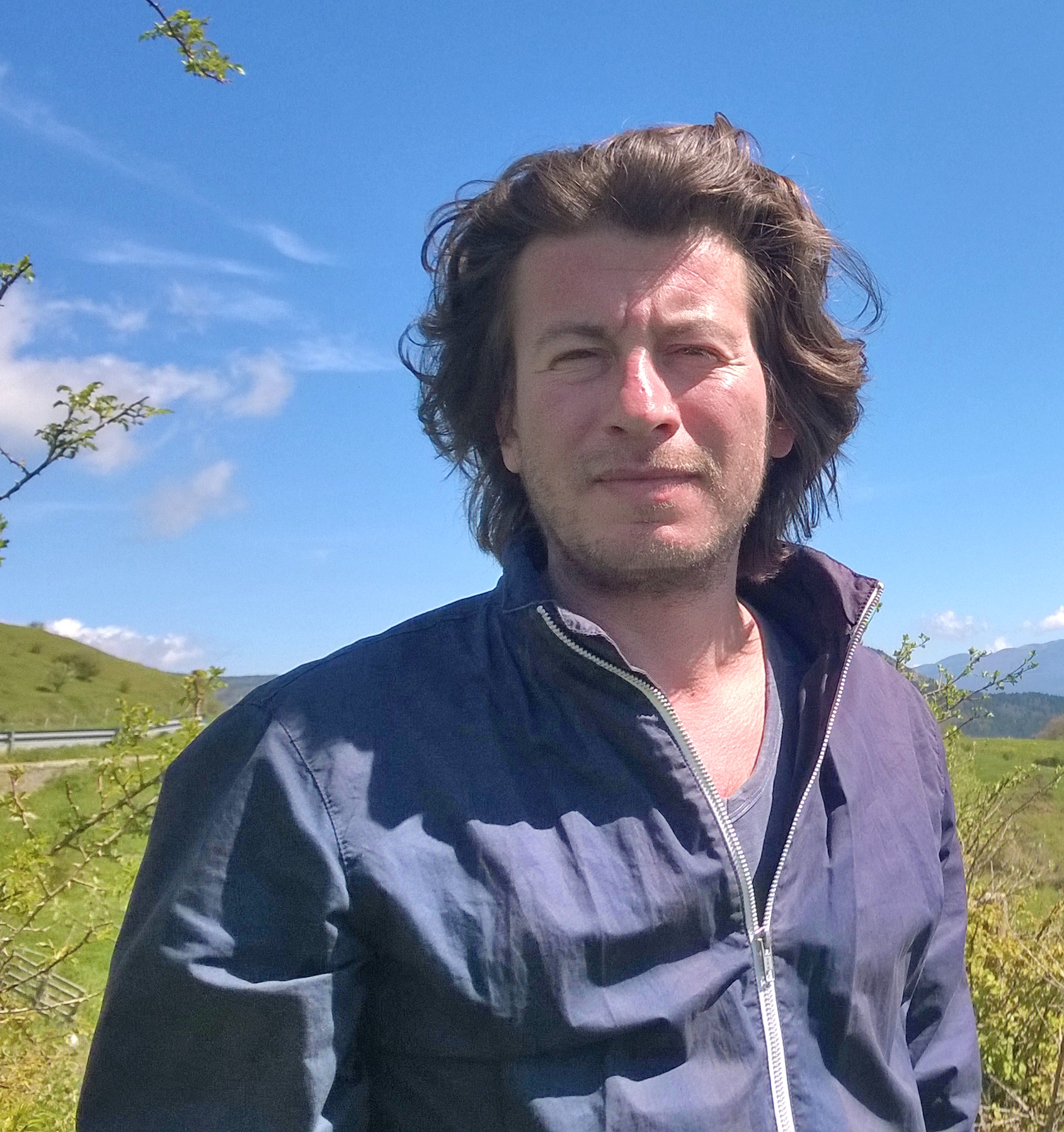 Hungarian Filmdirector, Ferenc Török, Sicily, May 2014.